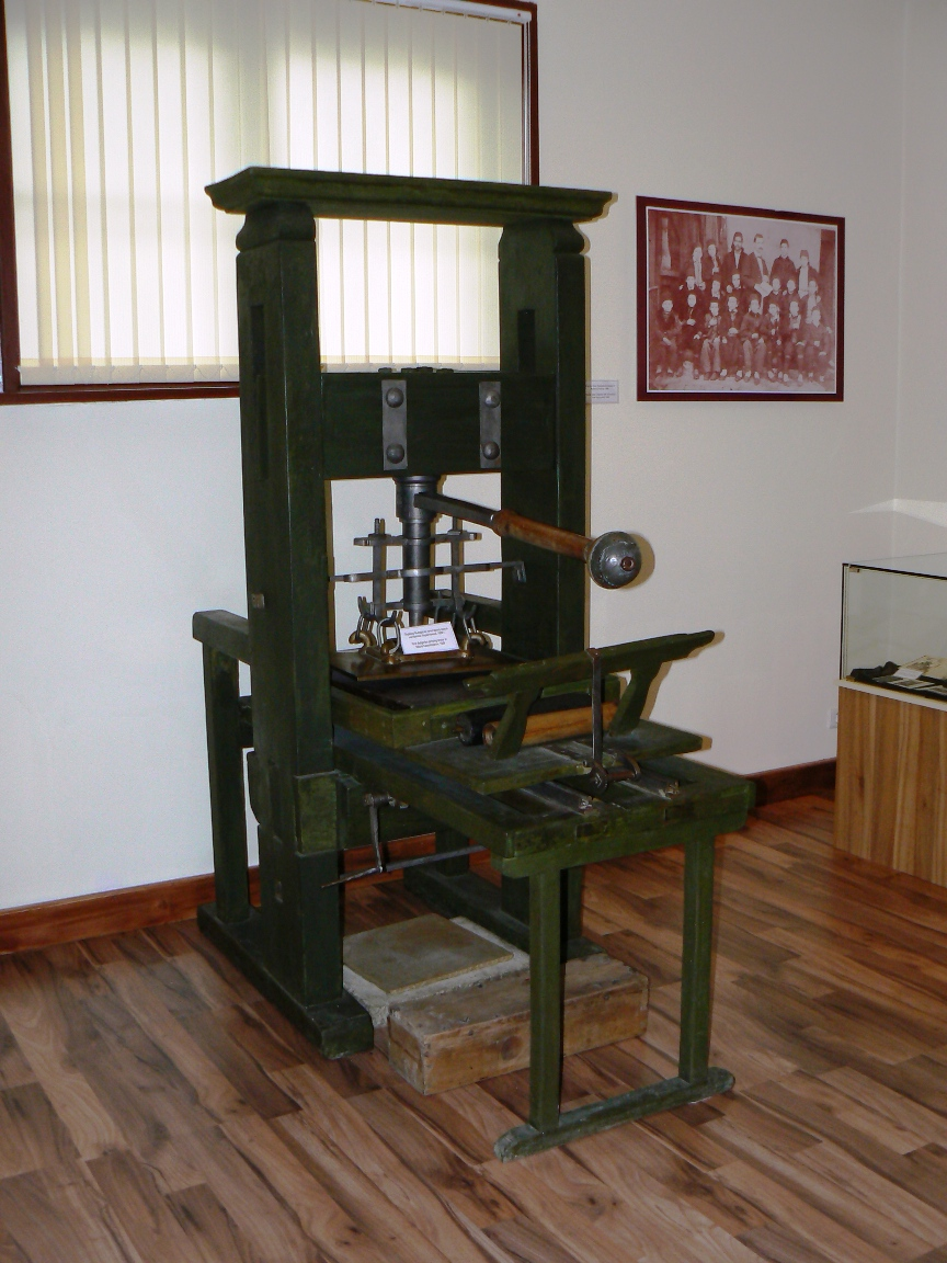 The first Bulgarian printing press, owned by Nikola Karastoyanov, 1828 year. Exhibited in the History Museum in Samokov, Bulgaria